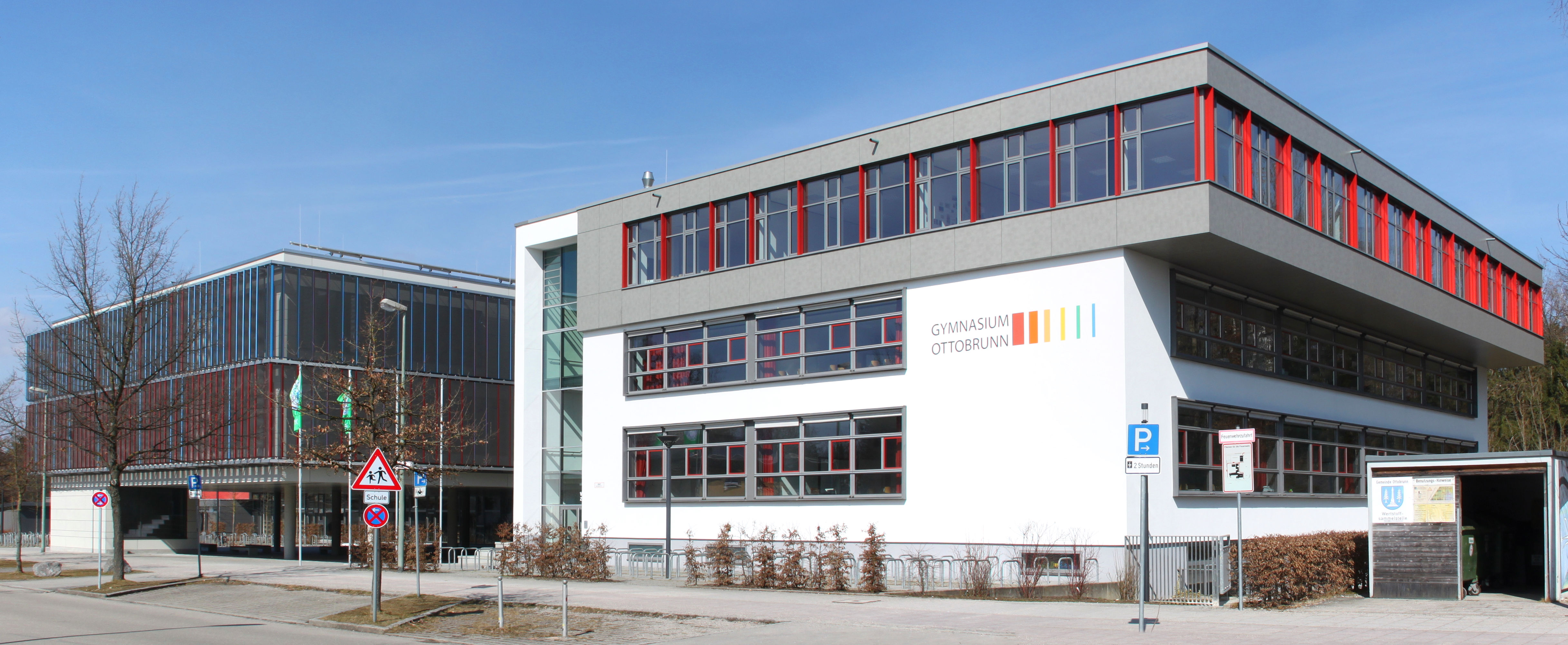 Gymnasium Ottobrunn (Ottobrunn grammar school): left: A wing (2016); right: C wing (2002)